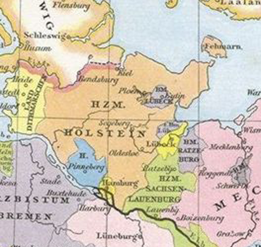 This map comes from the map collection of Monumenta Germaniae Historica, specifically from: Germany in 15th century, from Allgemeiner historischer Handatlas (